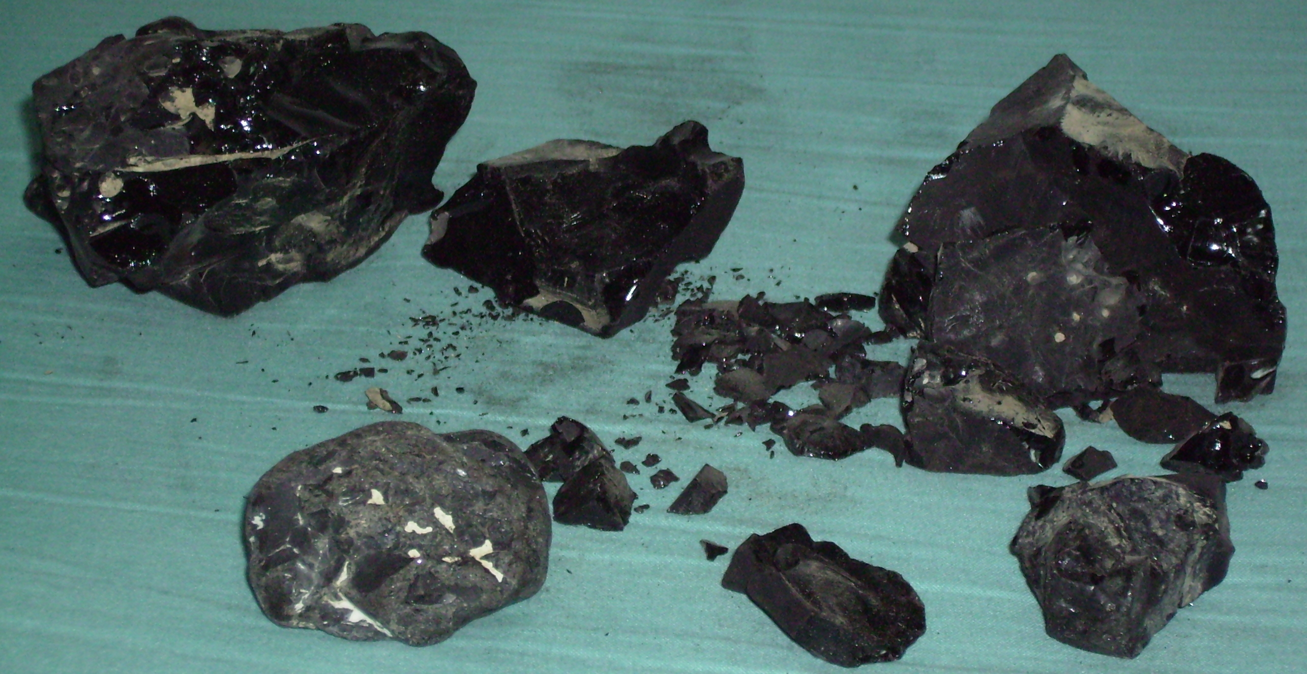 Natural formed Bitumen collected at the Dead Sea shore